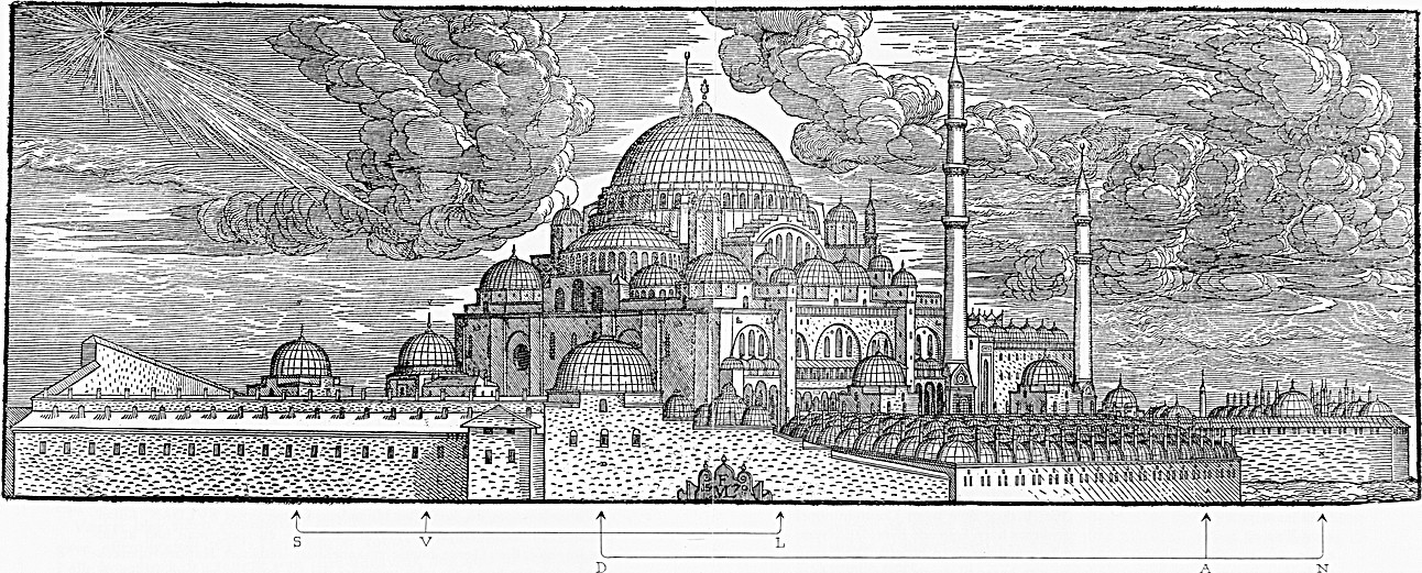 Melchior Lorck, The Süleymaniye mosque in Constantinople